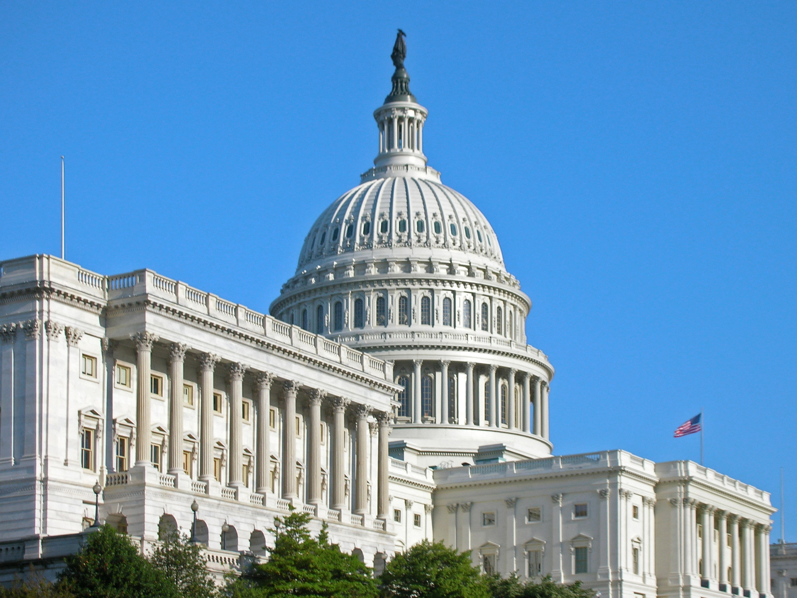 The United States Capitol in Washington, D.C.